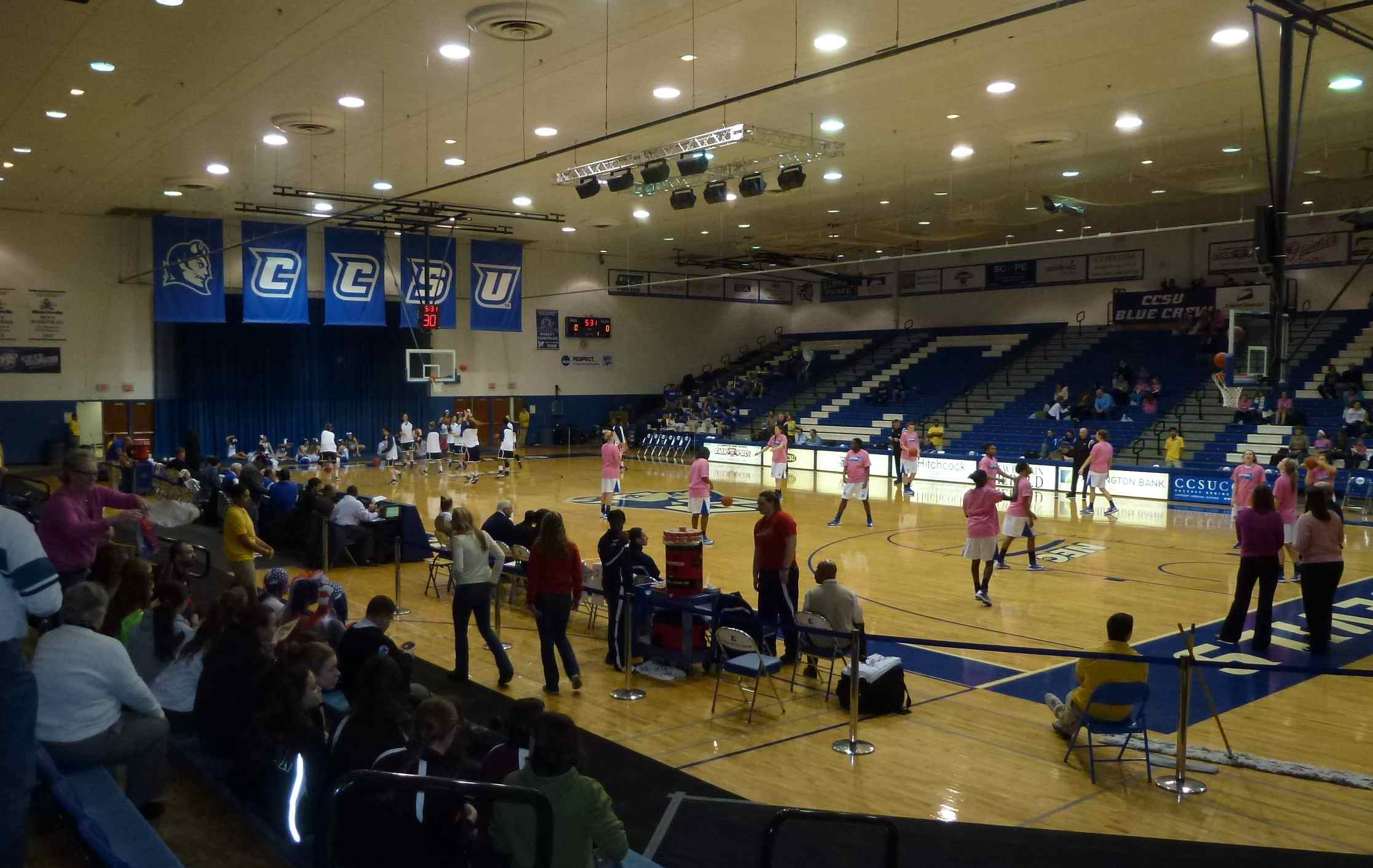 William H. Detrick Gymnasium, located in Harrison Kaiser Hall on the campus of Central Connecticut State University. This building is where the basketball teams play. Taken at the CCSU versus St. Francis(New York) women's basketball game, 26 January 2013